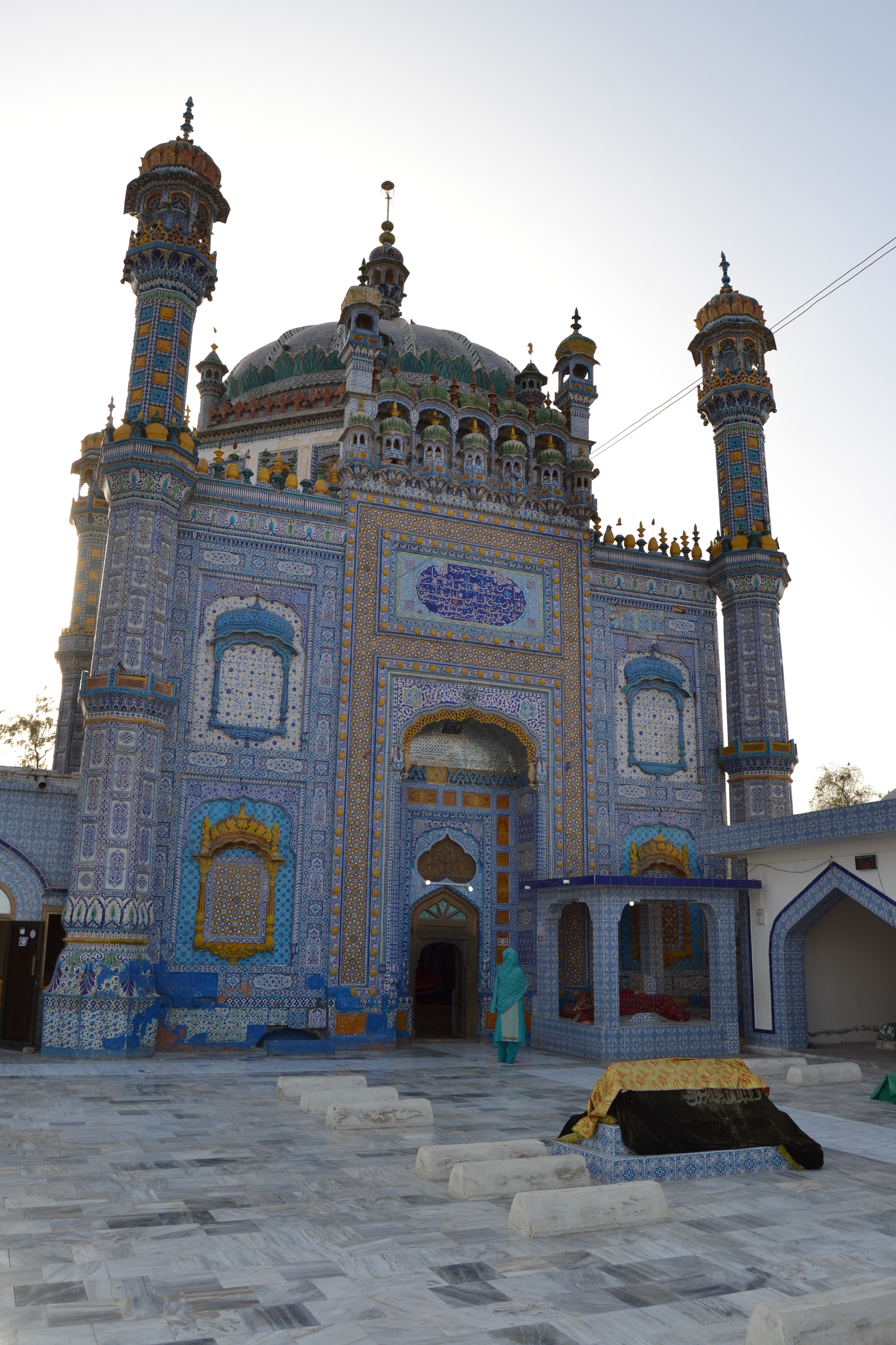 Shrine of Sachal Sarmast This is a photo of a monument in Pakistan identified as the SD-U-27